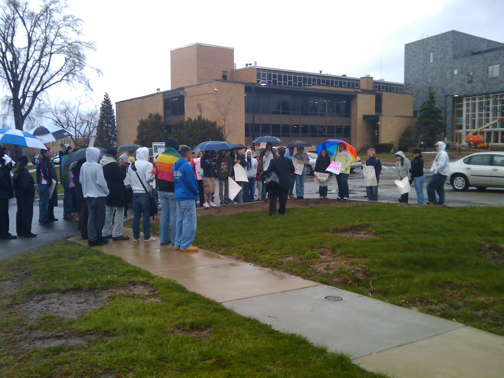 Students and supporters protesting and blocking members of the Westboro Baptist Church protesting a production of The Laramie Project at Daemen College